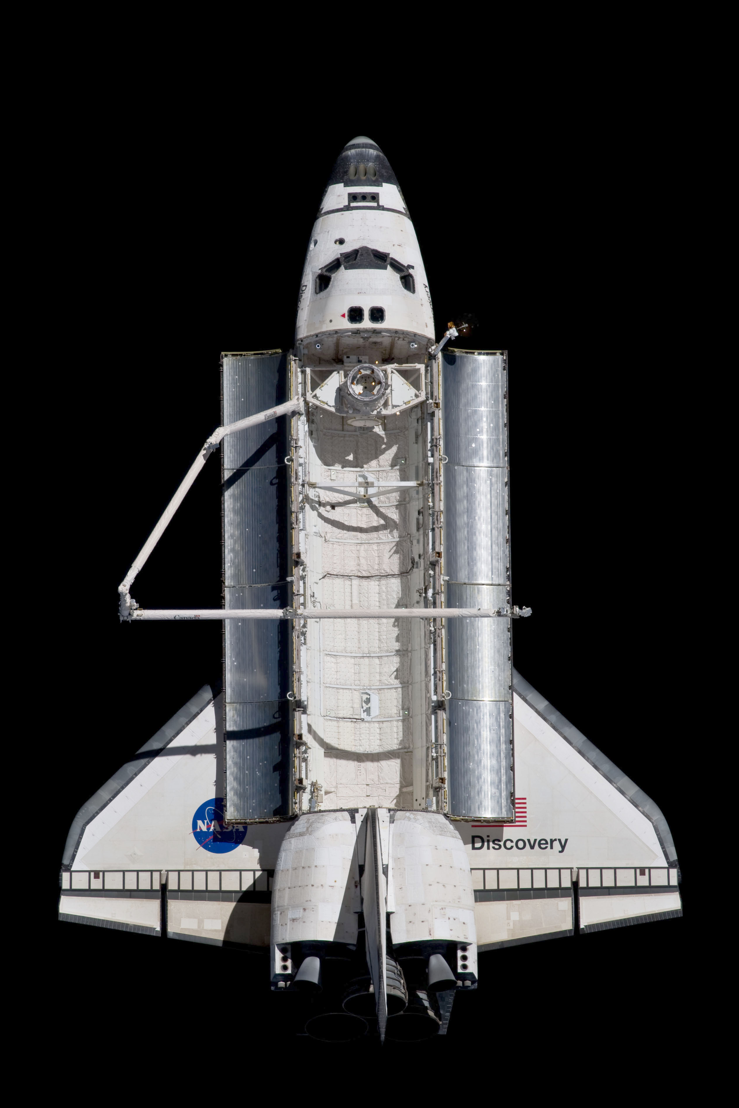 Backdropped against the blackness of space, Discovery is seen from the International Space Station as the two orbital spacecraft accomplish their relative separation on March 7 after an aggregate of 12 astronauts and cosmonauts worked together for over a week. During a post undocking fly-around, the crew members aboard the two spacecraft collected a series of photos of each other's vehicle.